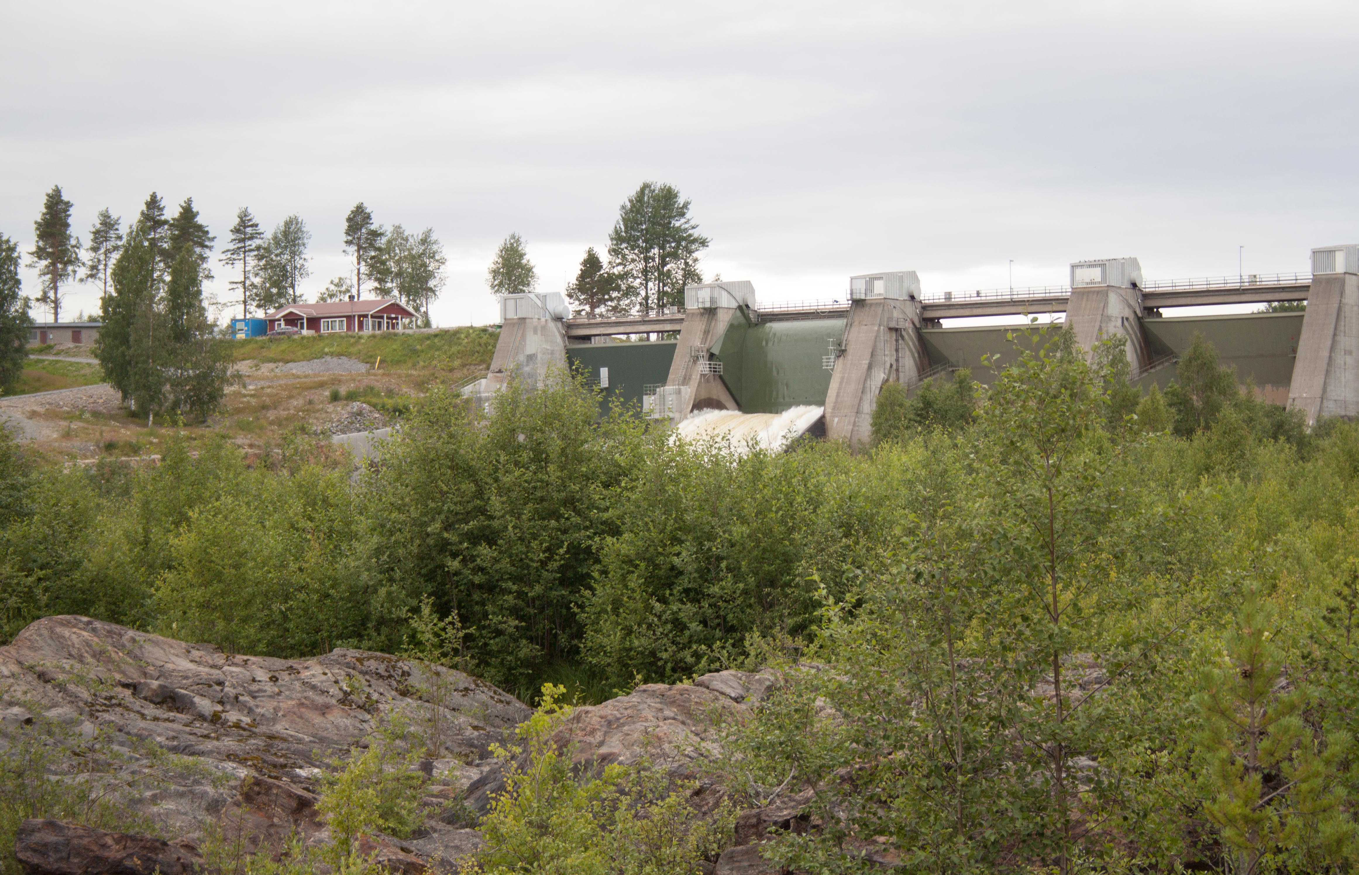 Archeological site of the Norrfors petroglyphs